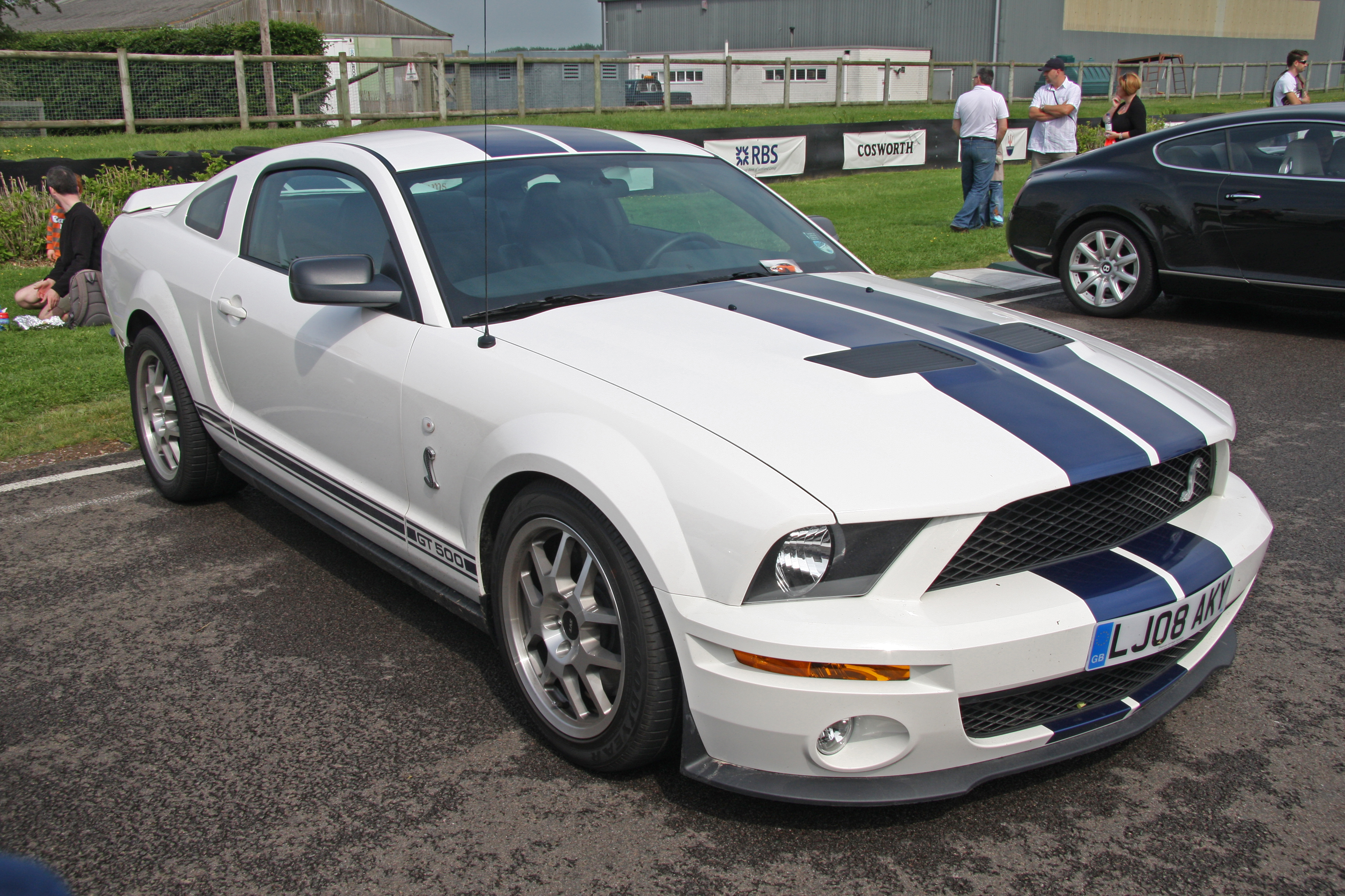 Ford Mustang Shelby GT 500